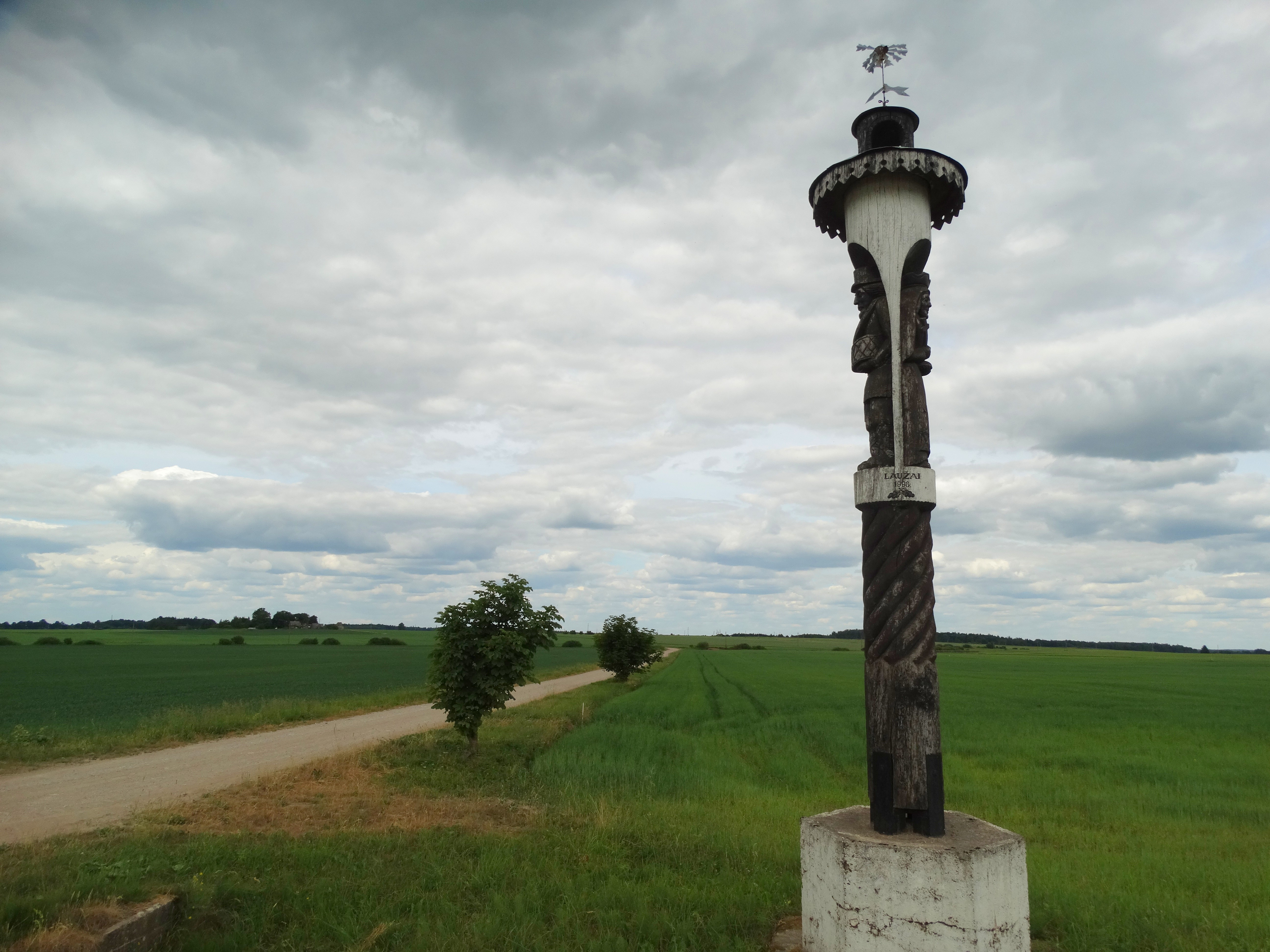 Laužai, Raseiniai district, Lithuania